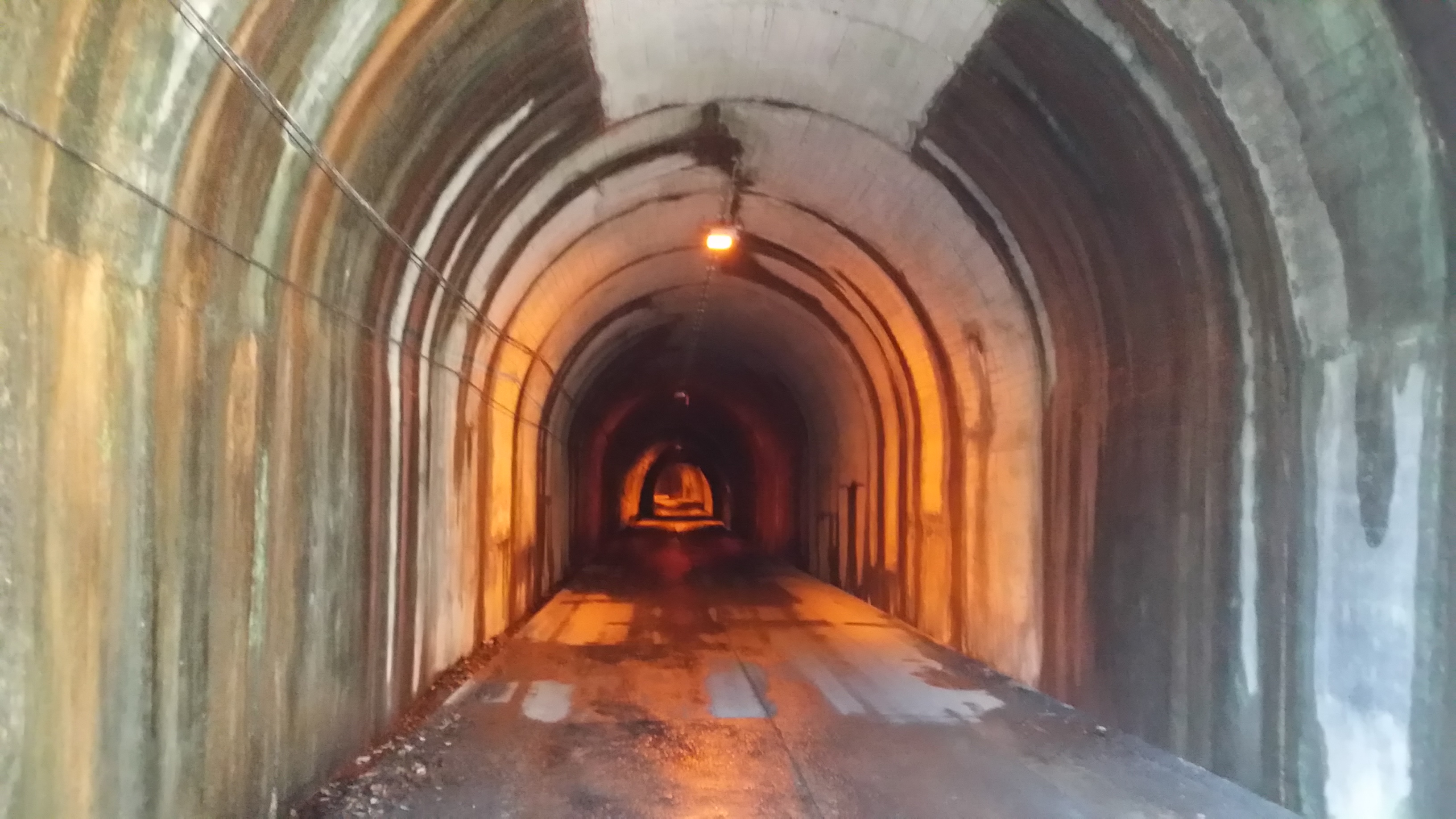 Tunnel into Okugame